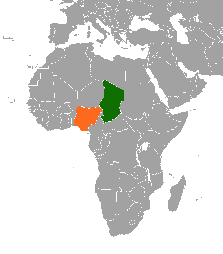 Chad & Nigeria locator map